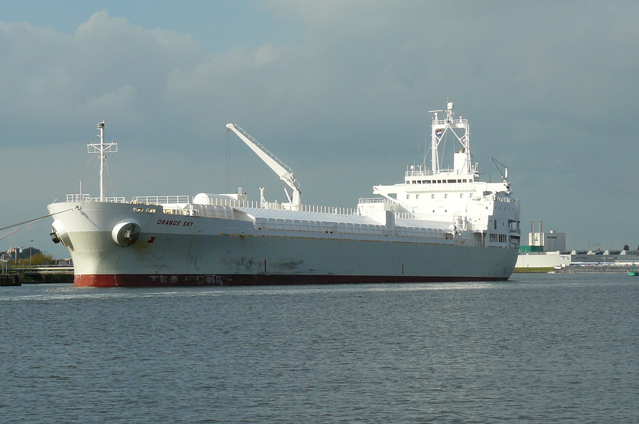 Orange Sky in the port of Amsterdam (October 2014)